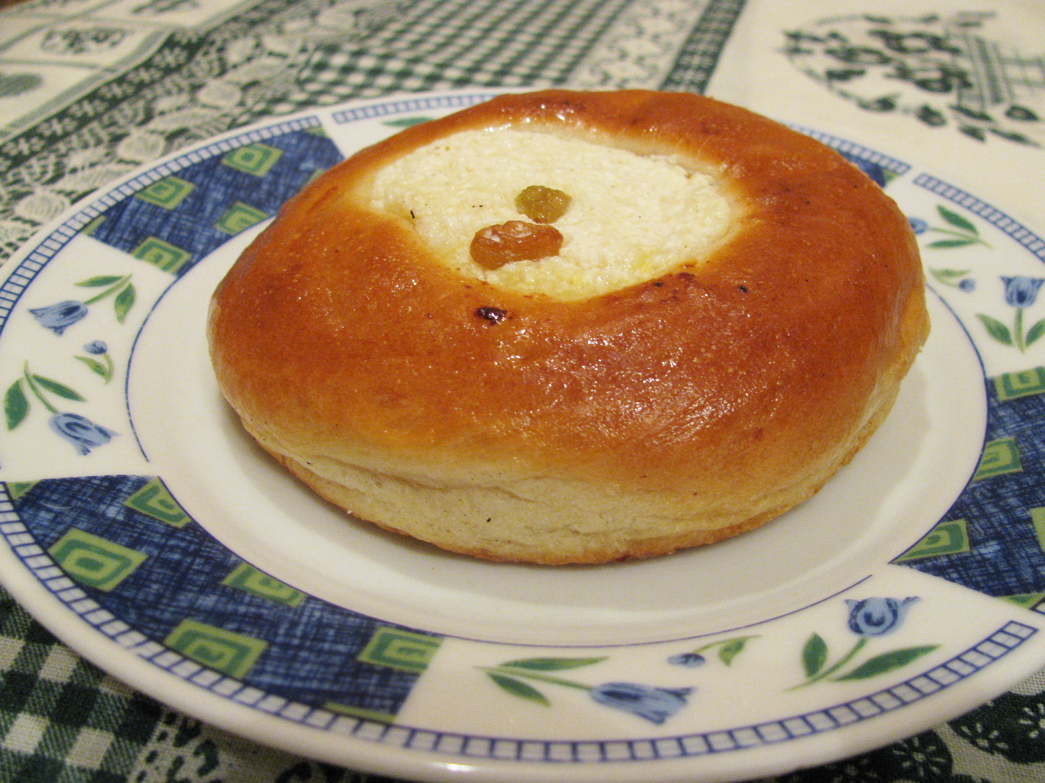 Vatrushka